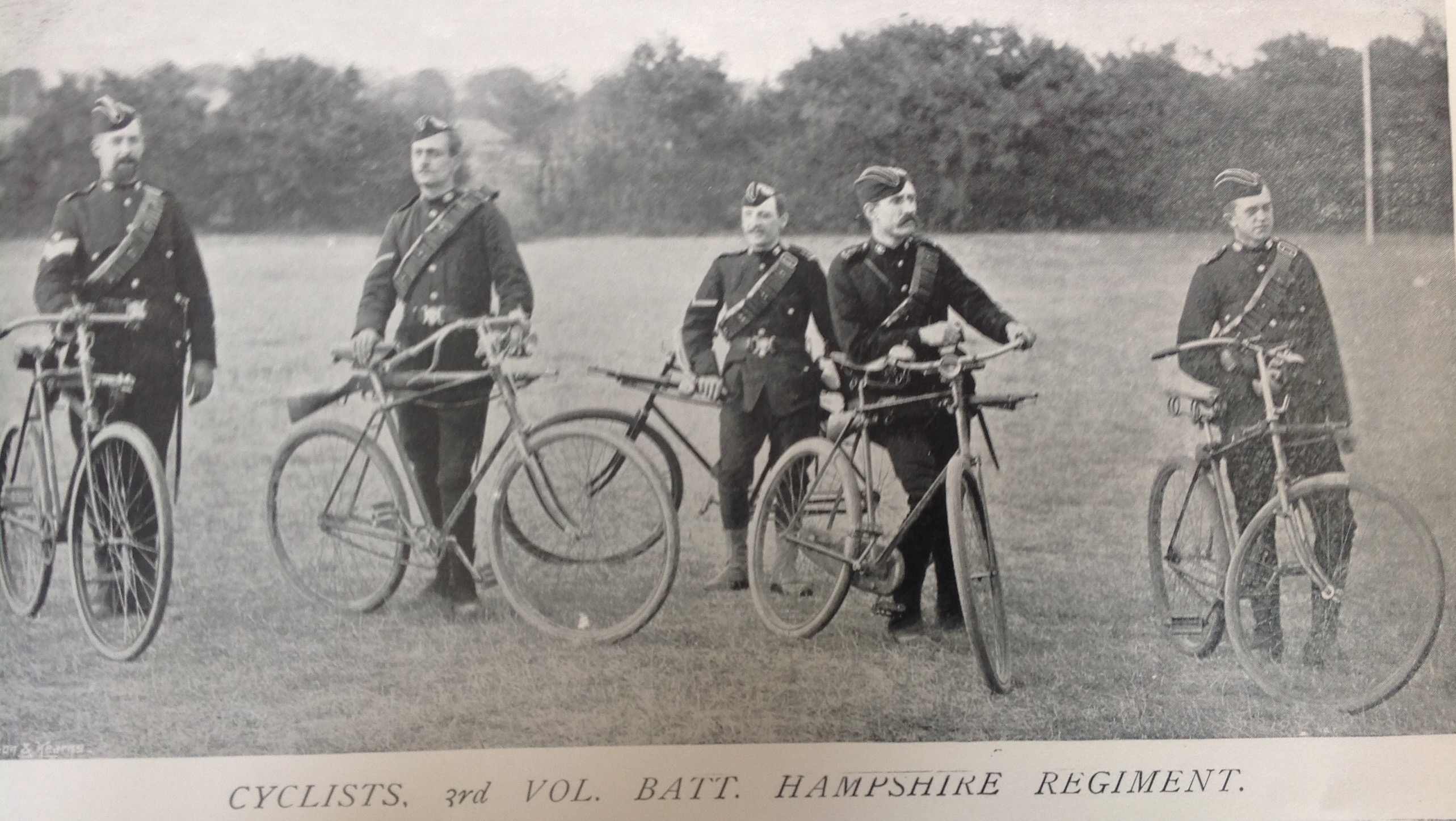 Cyclists from the 3rd Volunteer Battalion Hampshire Regiment. Pictured in the Navy and Army Illustrated published on 9 April1896